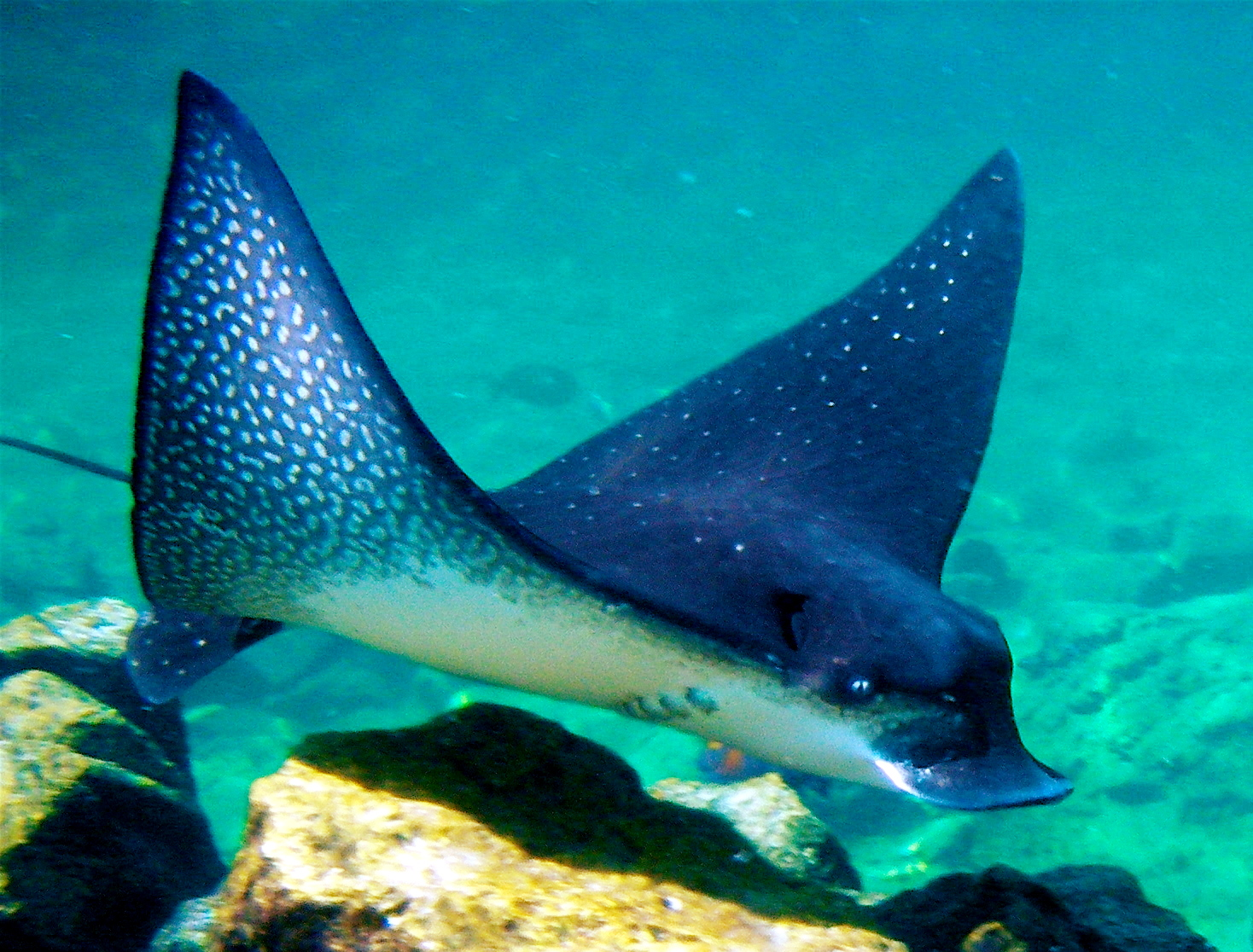 Eagle ray at Hawaii. The playful curiosity of this eagle ray reminded me of a story from the inventor of the Deepflight “flying submarine.” On an early test dive, he found himself dancing with a curious eagle ray.... Moving like they do might be a signal of kinship... and may help express universal gestures for play... Which reminds me of Dr. Stuart Brown, the founder of the Institute for Play, who has a fascinating series of photos of animals playing (ravens sliding on their backs down an icy slope, monkeys rolling snowballs and playing leapfrog, and various inter-species games). “Warm-blooded animals play; fish and reptiles do not.” “We are designed to play. We need 3D motion. The smarter the creature the more they play. The sea squirt auto-digests its brain when it becomes sessile.”